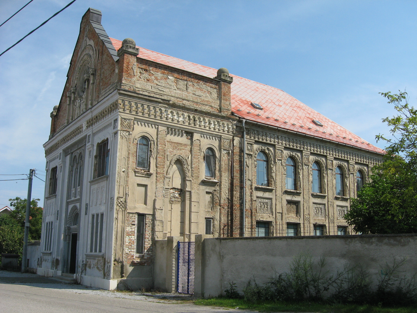 The synagogue in Šurany, Slovakia.